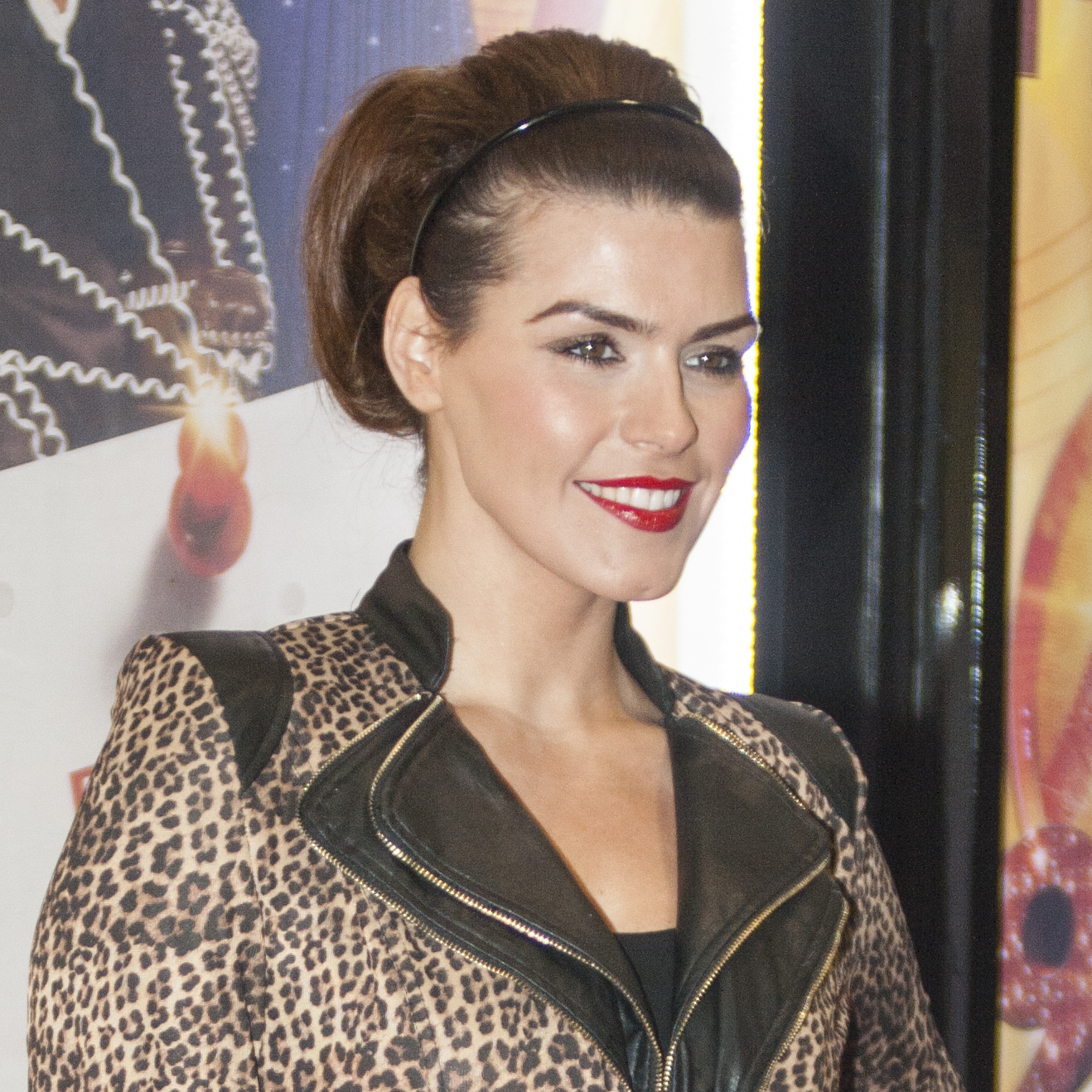 Carolynne Poole outside the Manchester Opera House for a performance of the 9 to 5 musical.